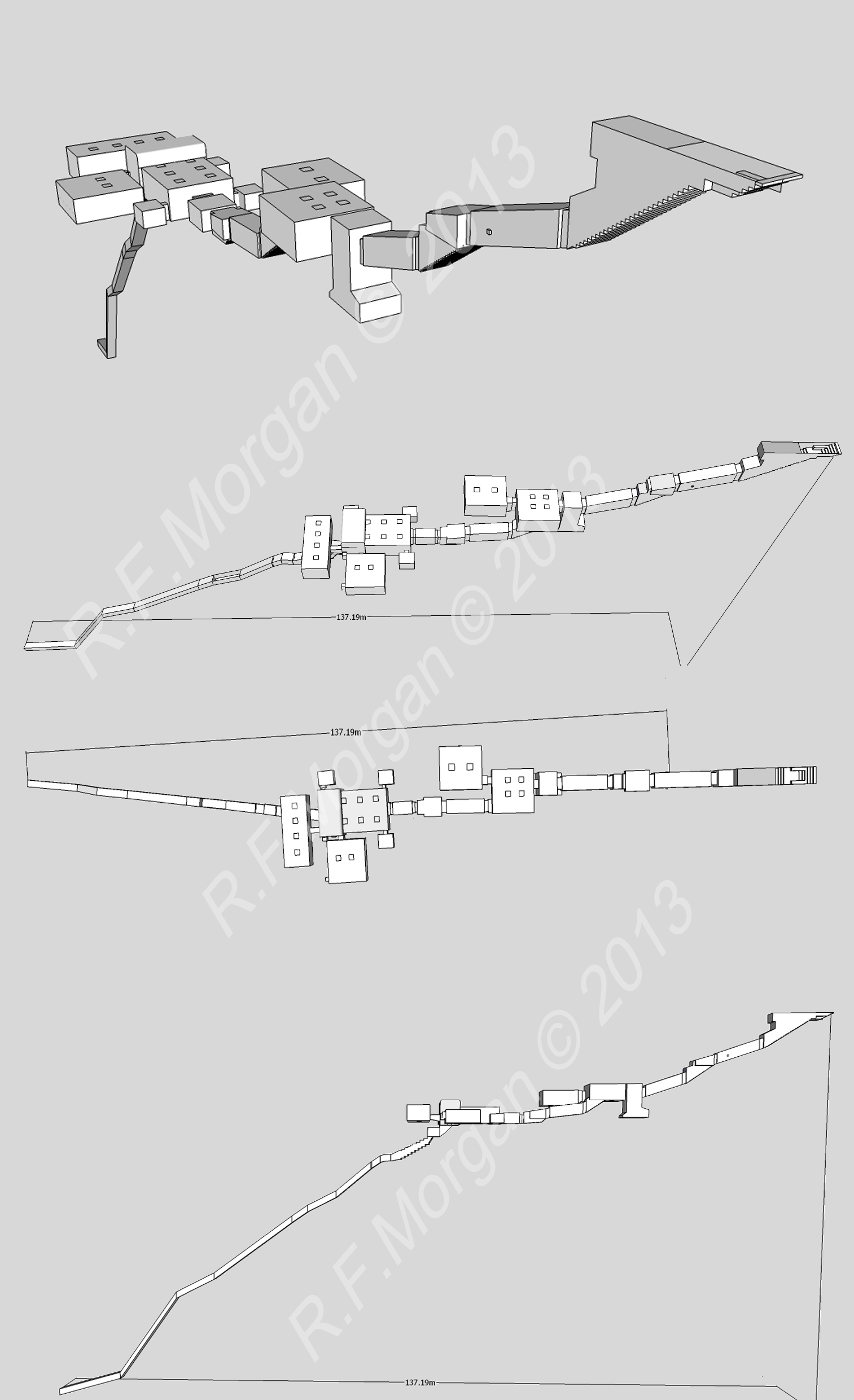 Isometric, plan and elevation images of KV17 taken from a 3d model